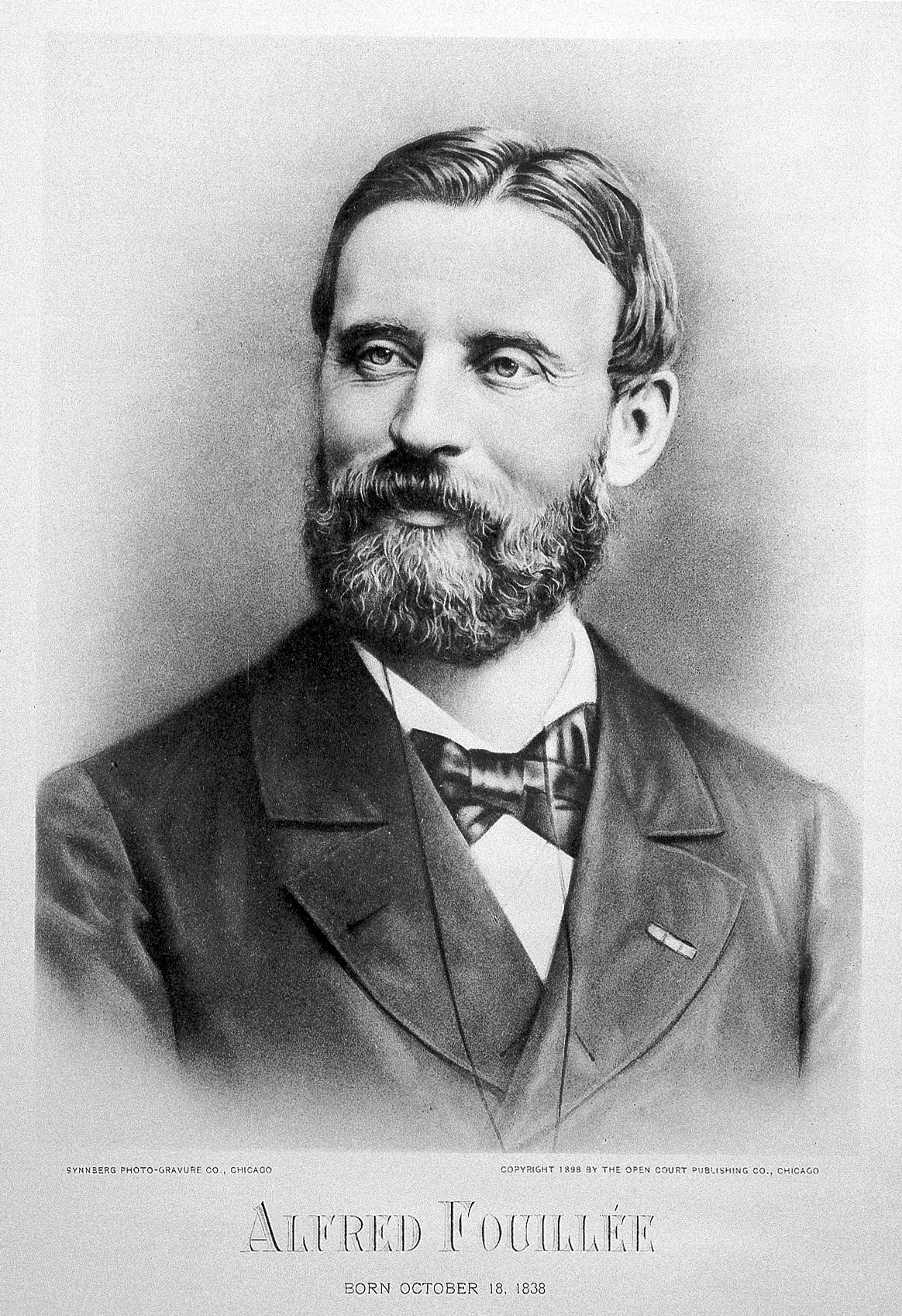 Alfred-Jules-Emile Fouillée. Photogravure by Synnberg Photo-gravure Co., 1898. Iconographic Collections Keywords: Alfred-Jules-Emile Fouillée; Synnberg Photo-gravure Co..